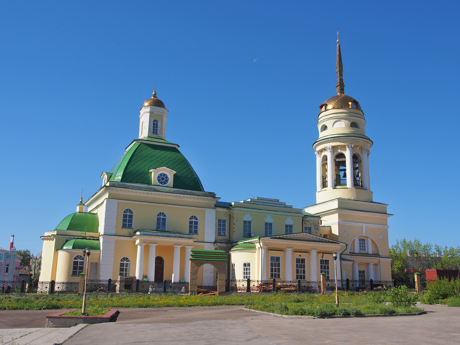 Holy Trinity Cathedral in Kamensk-Uralsky, Sverdlovsk Oblast.